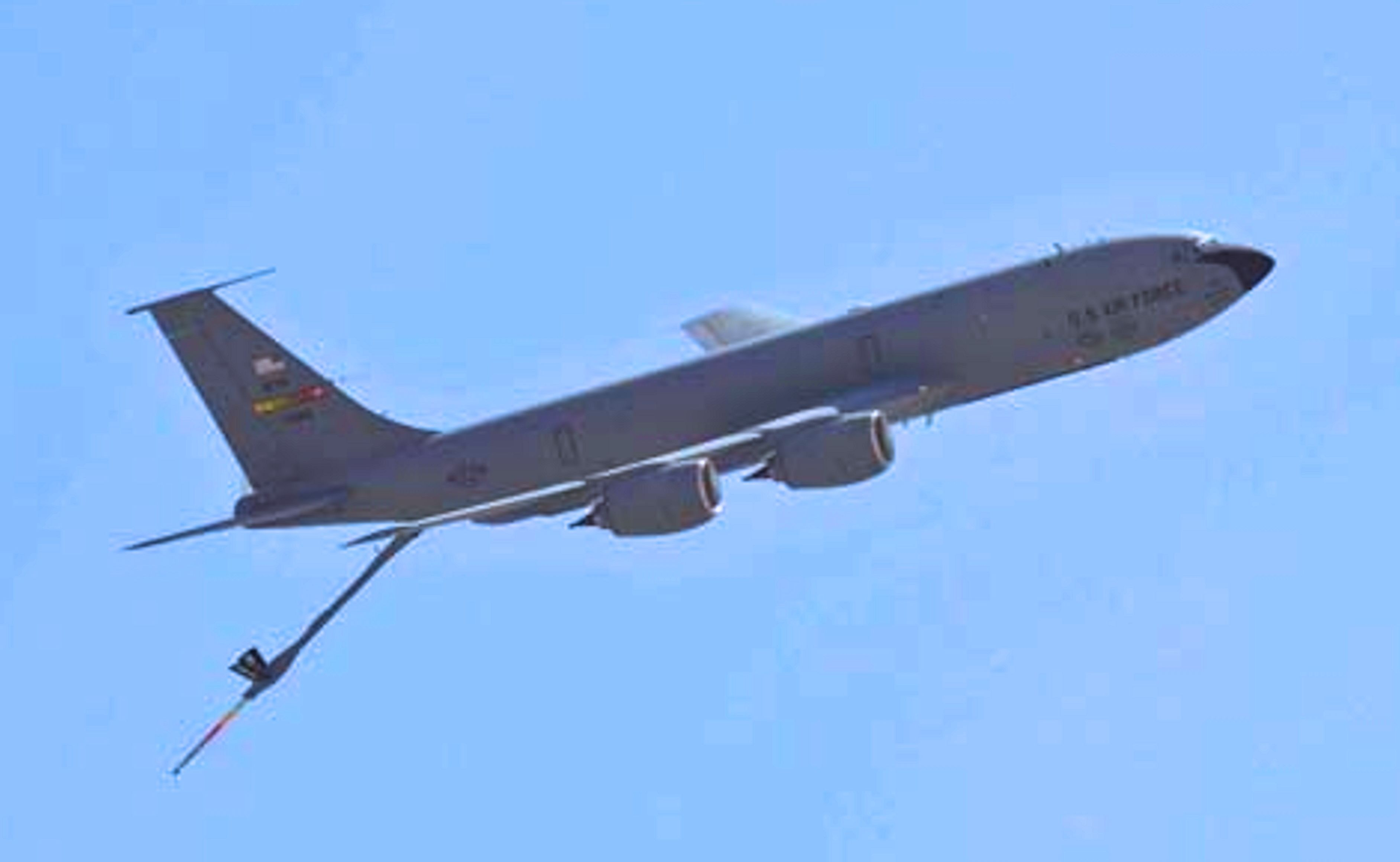 A March Air Reserve Base KC-135 extends its refueling boom for display during the March Field AirFest 2012, held May 19-20, 2012. An estimated 500,000 spectators showed up for the event, which featured military and civilian aerial and ground demonstrations. (U.S. Air Force photo / Tech. Sgt. Joselito Aribuabo)